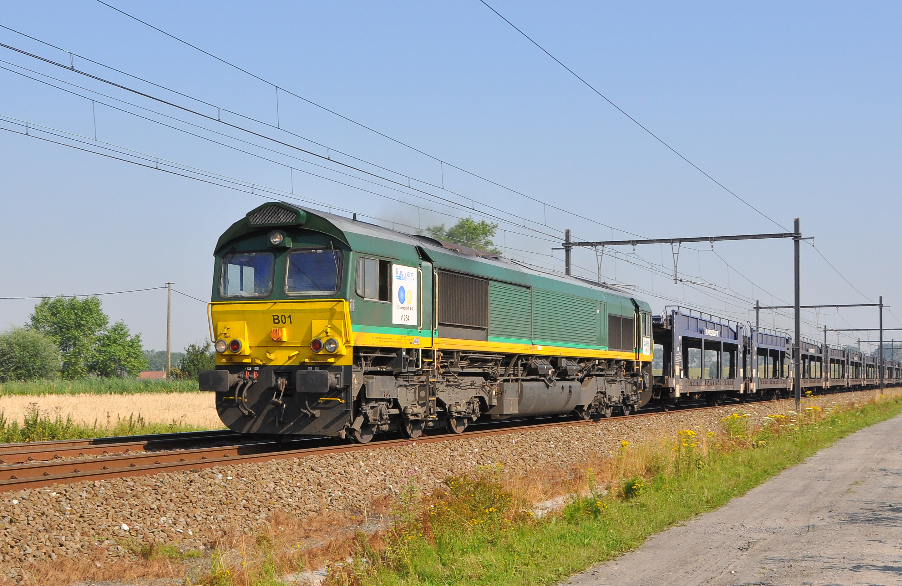 Class 66 locomotive #V264 of Rurtalbahn Cargo / TrainsporT AG on the line from Zeebrugge to Bruges (Belgium)